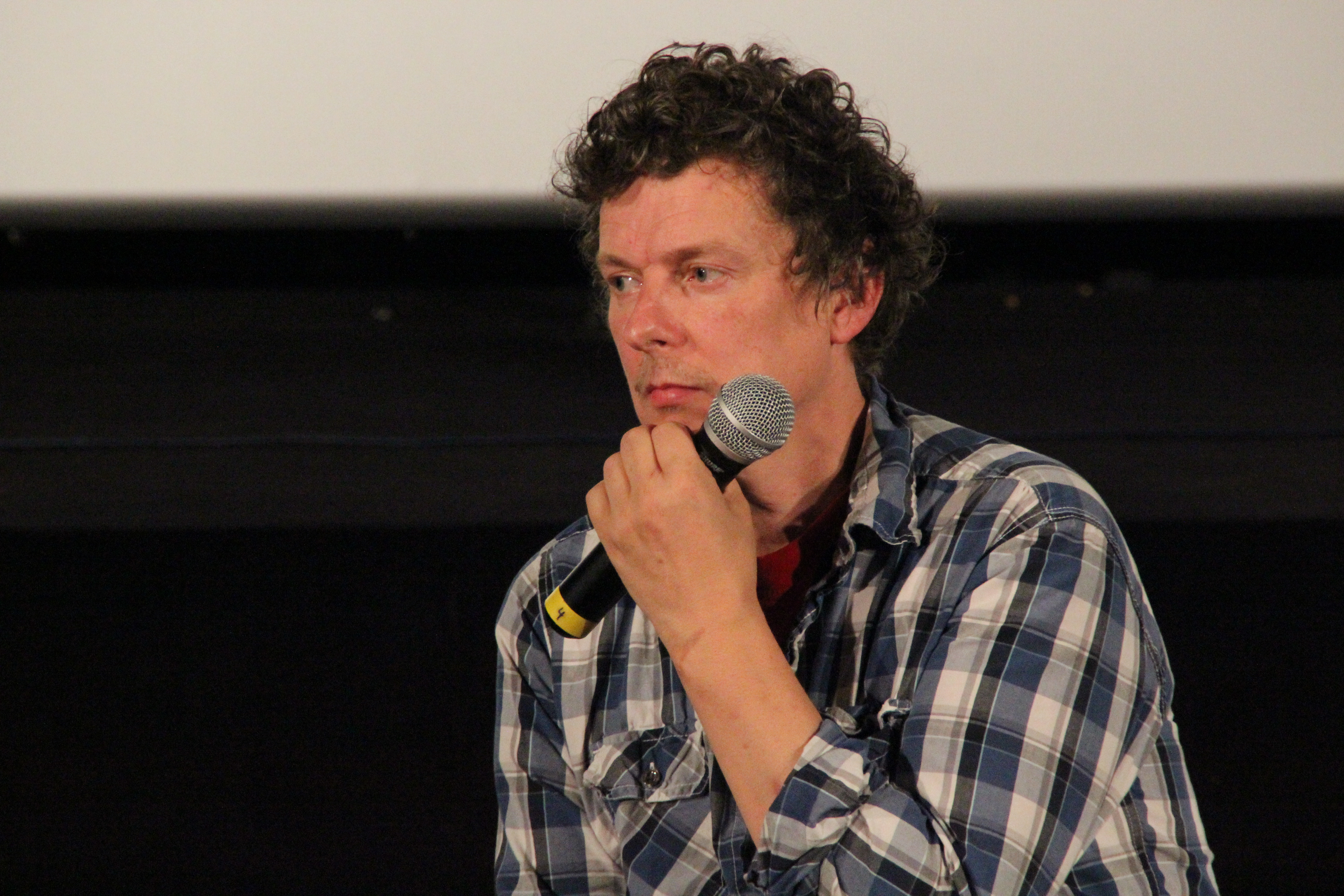 Master class with Michel Gondry in the Gaumont Parnasse movie theater in Paris.